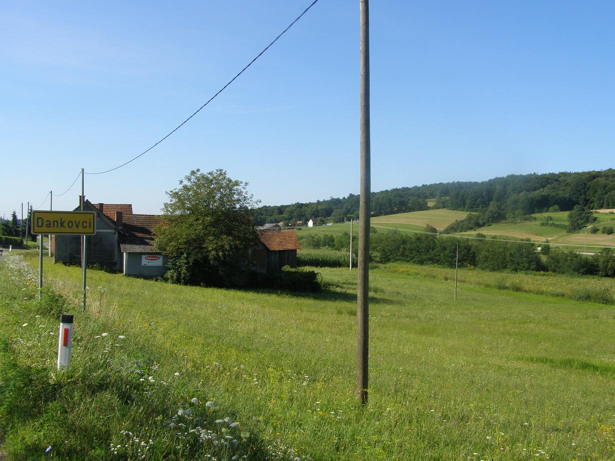 Dankovci, village into the Prekmurje